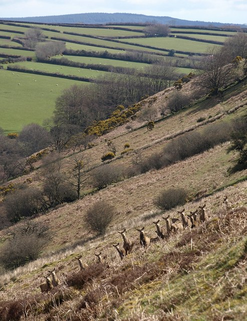 Deer in the Quarme valley. A herd wondering about my next move while I wait for theirs. They are on the slopes of Kitnor Heath a little to the east of where 760431 was taken, and the view behind is down the valley and across to fields near Codsend.